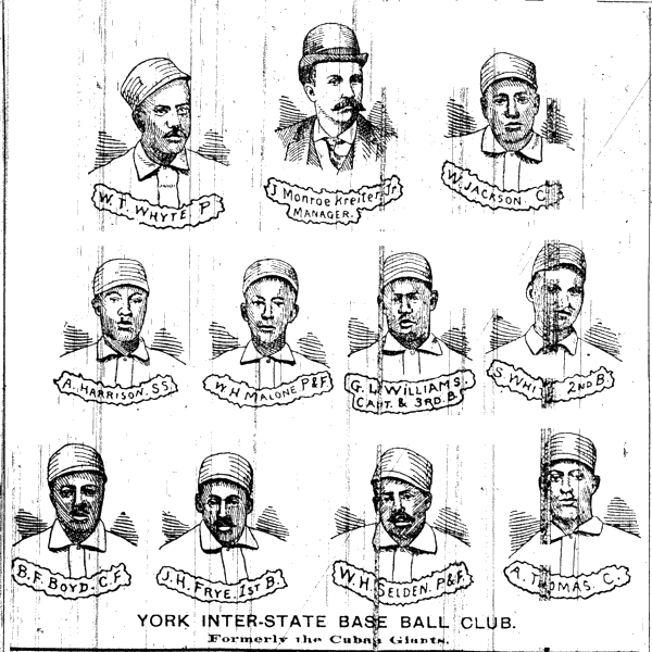 From the Cleveland Gazette, Cleveland, Ohio, Page 2, Columns 3 to 6. The artwork was originally made for the Harrisburg Telegram and was given to the Cleveland Gazette to publish.